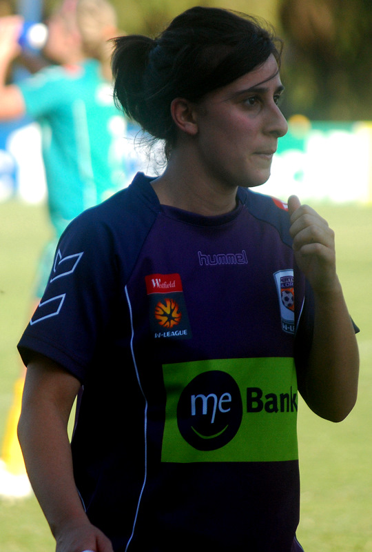 Elisa D'Vido at half time of the 2009 Perth Glory v Newcastle Jets match